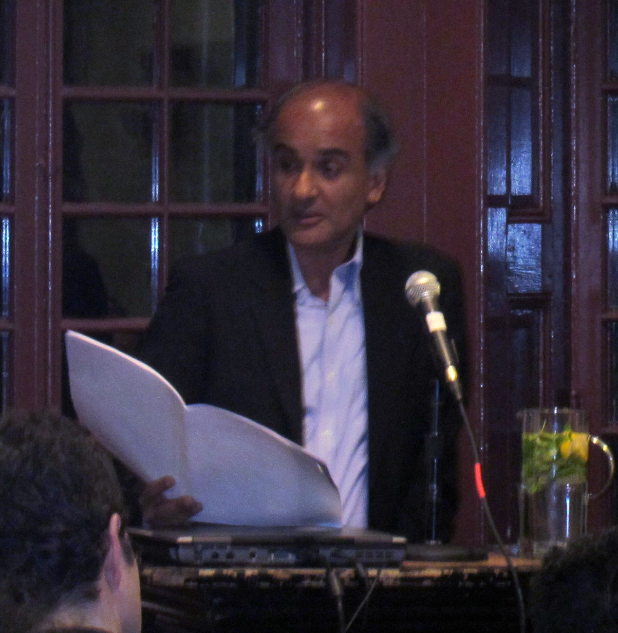 February 8, 2012 KWH Calendar